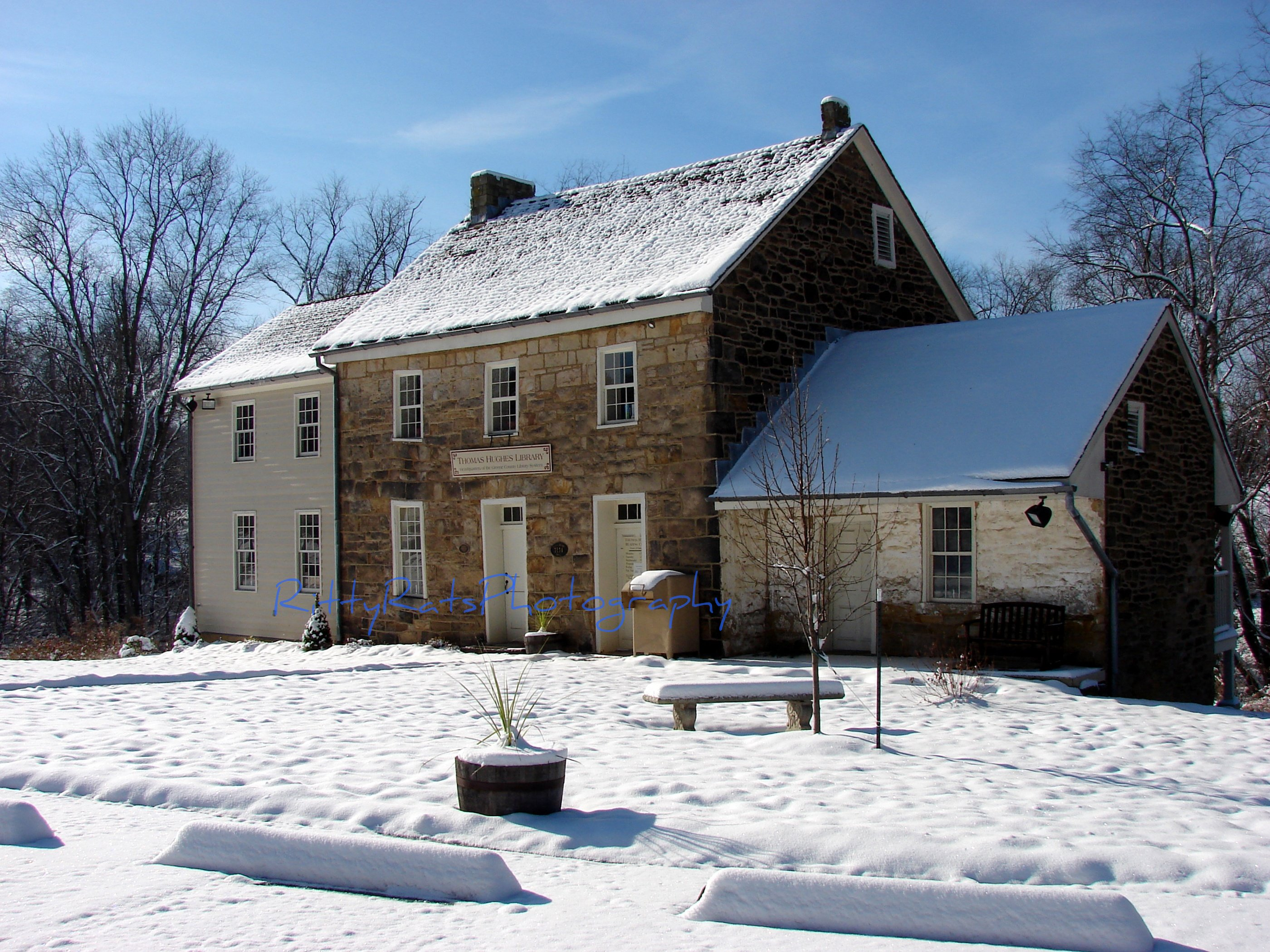 Front of the Hughes House, located on Hatfield Street just north of Jefferson in Jefferson Township, Greene County, Pennsylvania, United States. Built in 1814, it is listed on the National Register of Historic Places.